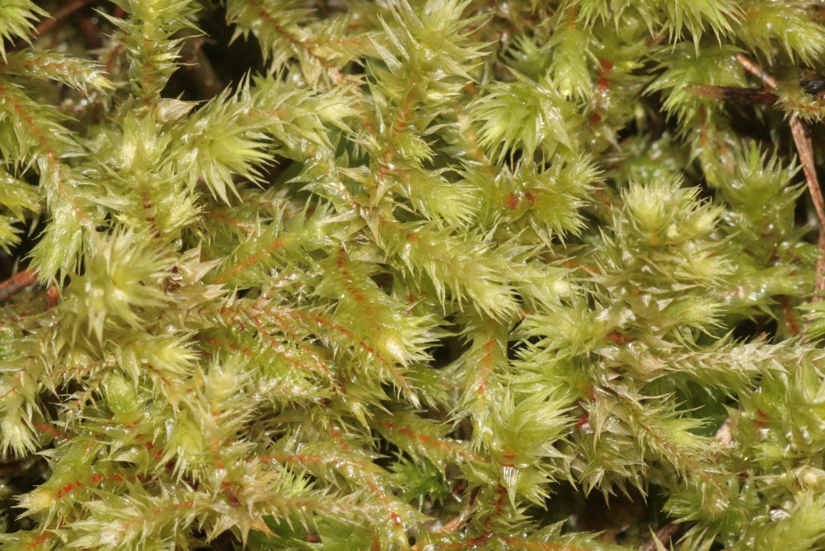 Rhytidiadelphus triquetrus